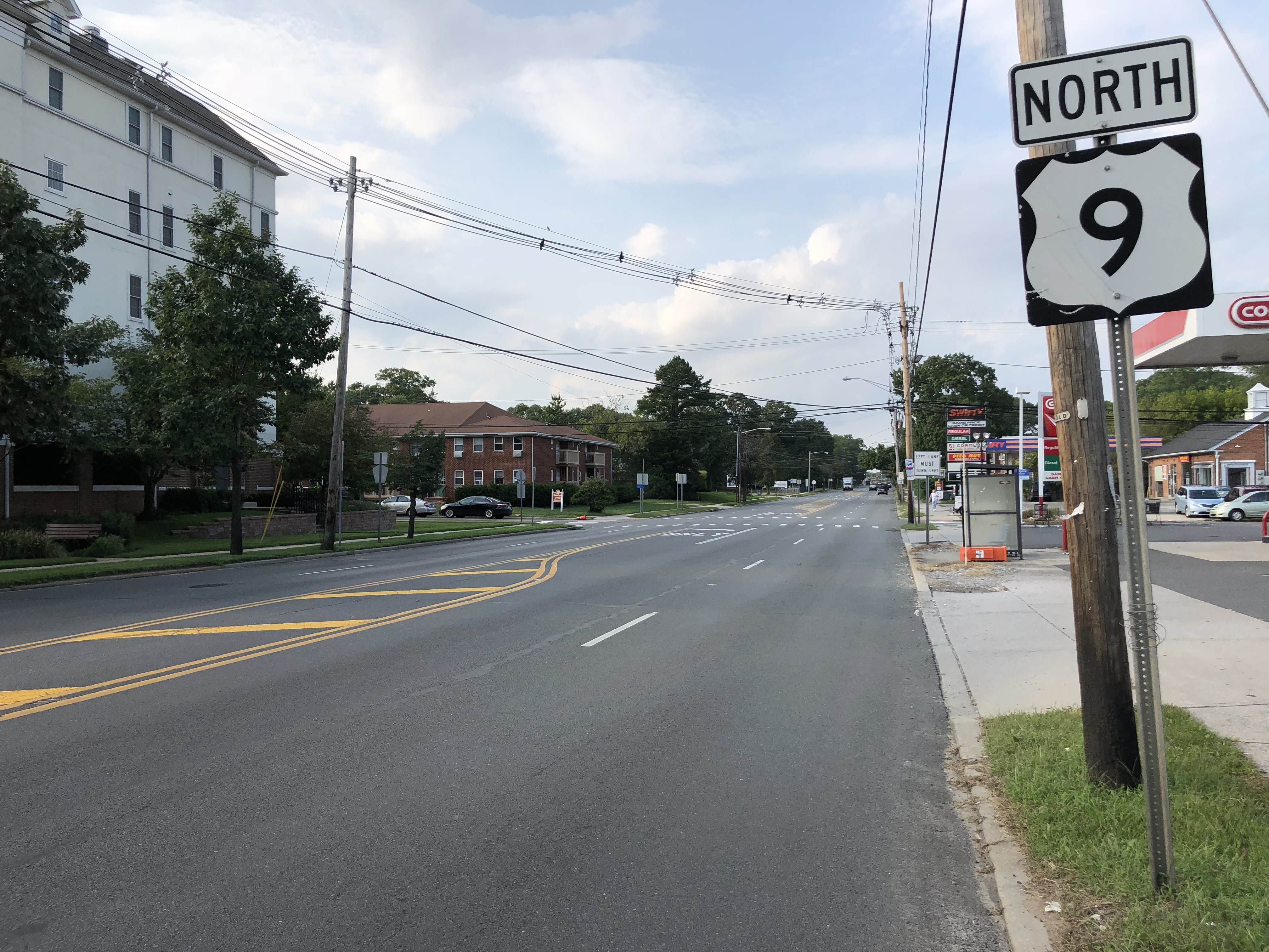 View north along U.S. Route 9 (Madison Avenue) just north of Ninth Street in Lakewood Township, Ocean County, New Jersey